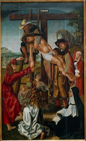 Descida da Cruz é um painel do Políptico da Capela-mor da Sé de Viseu, criado como os outros no período entre 1501 e 1506.